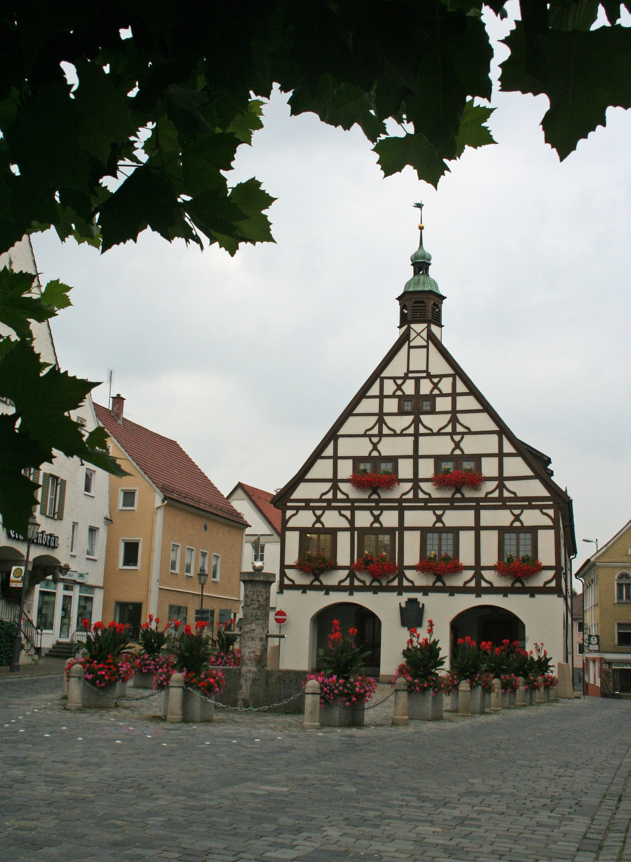 Krumbach – old town hall